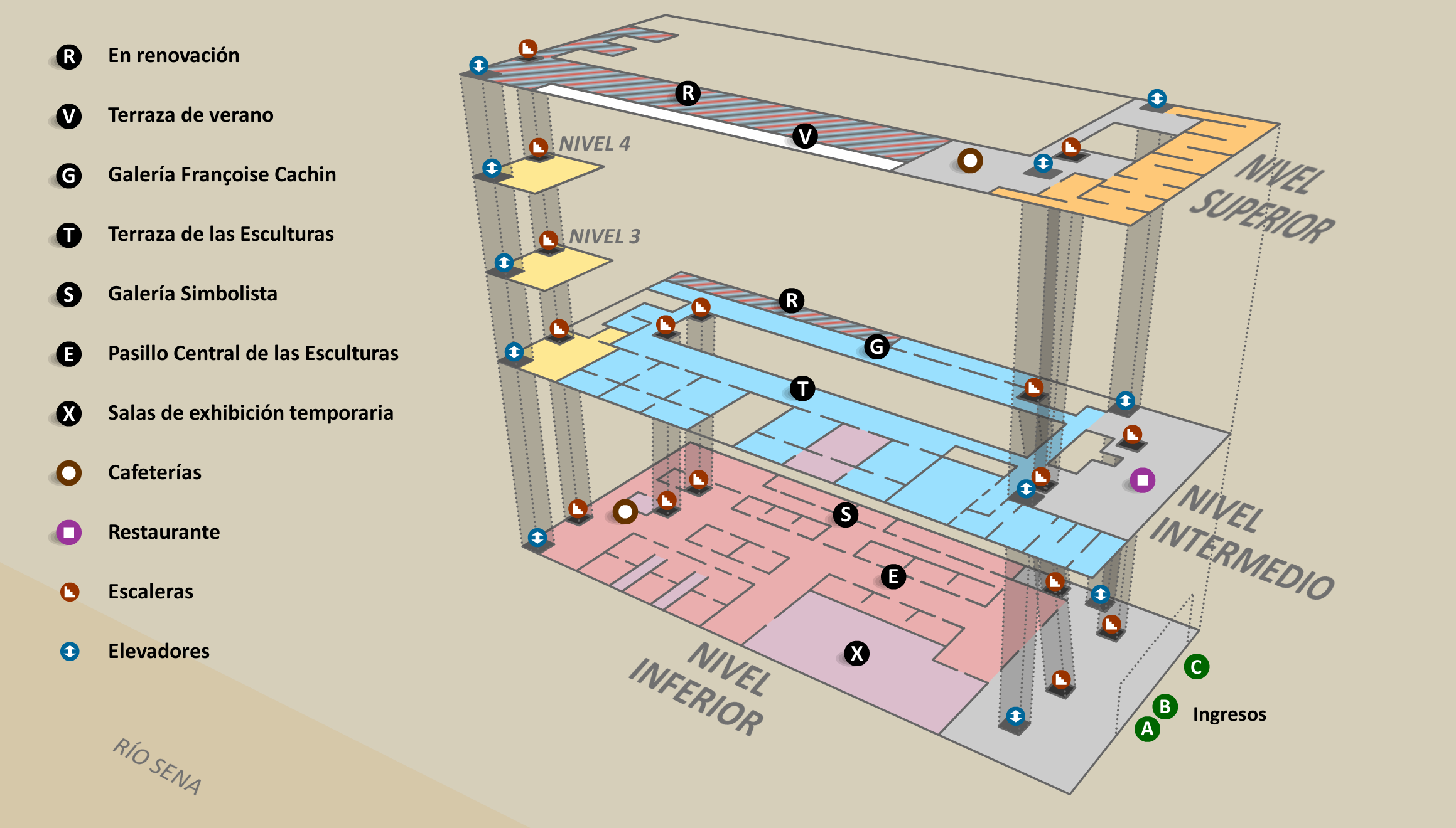 Map of the Musée d'Orsay, Paris, France